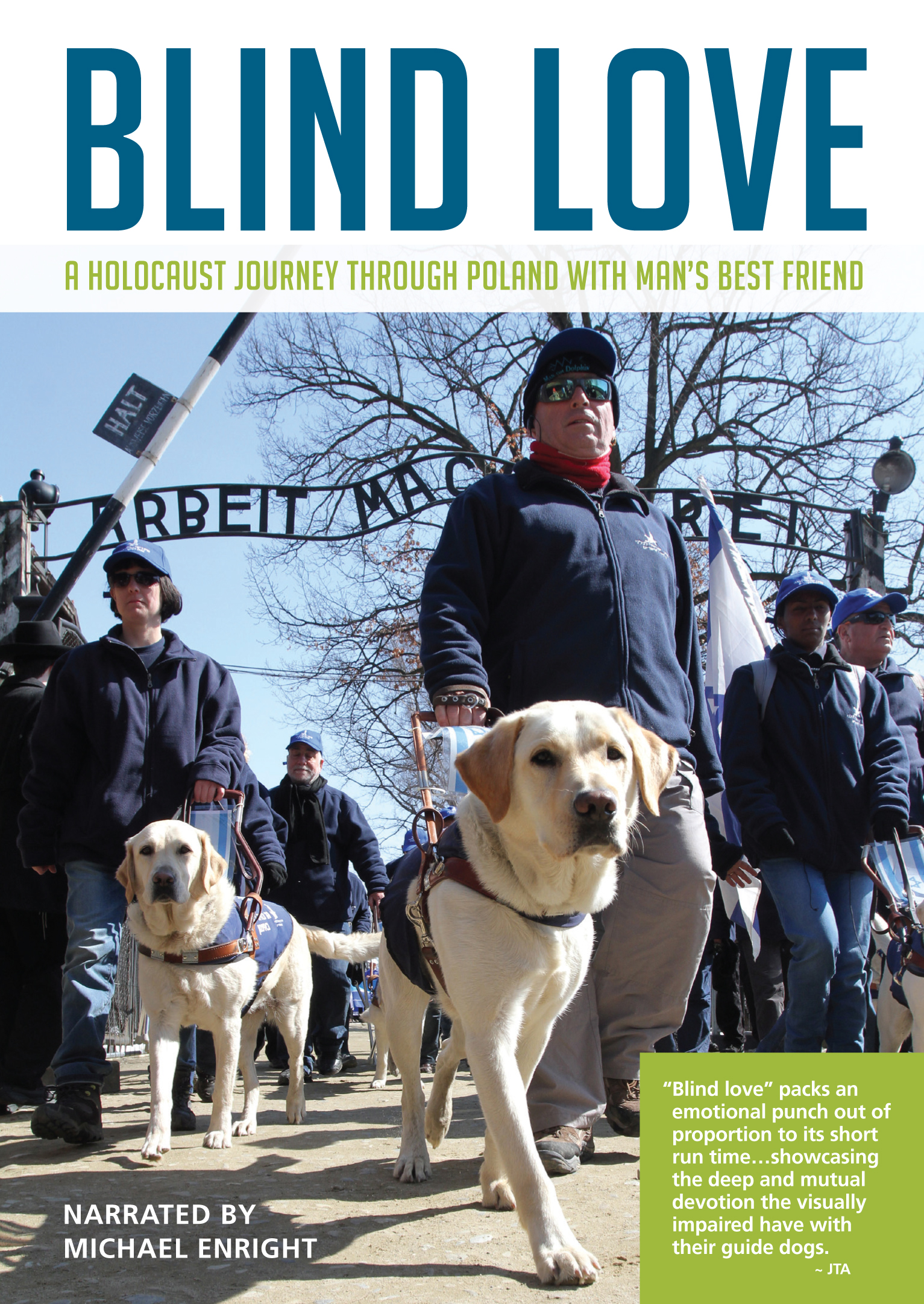 Blind Israeli and their guide dogs marching out of the gates of Auschwitz-Birkenau on the 2013 March of the Living. Image is on front of DVD cover for documentary film called, "Blind Love: A Holocaust Journey to Poland with Man's Best Friend."